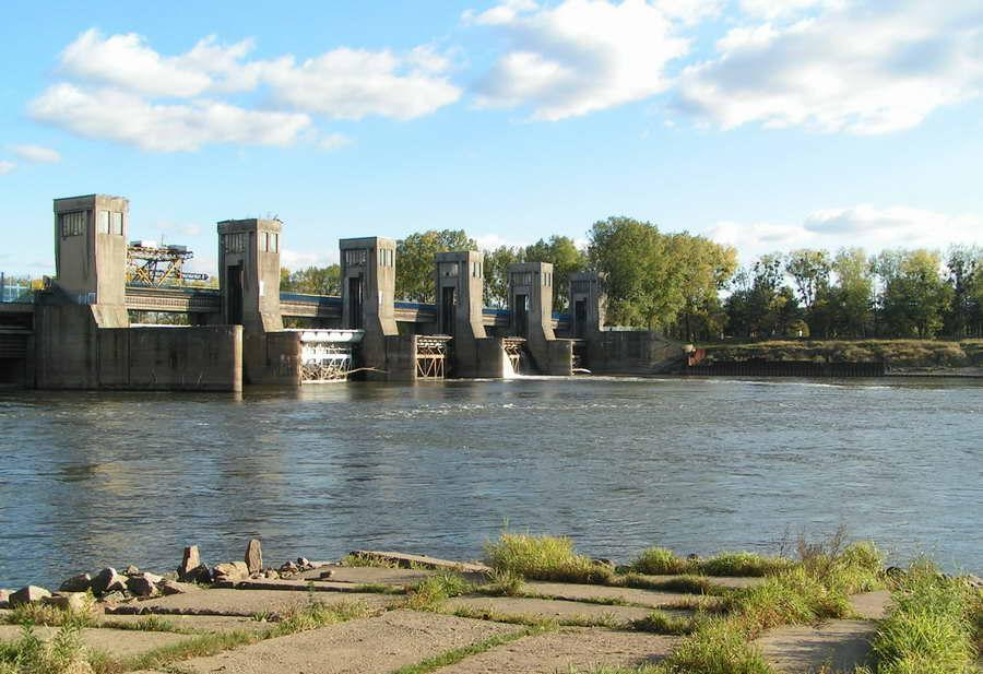 hydroelectric powerplant in Wały, Poland